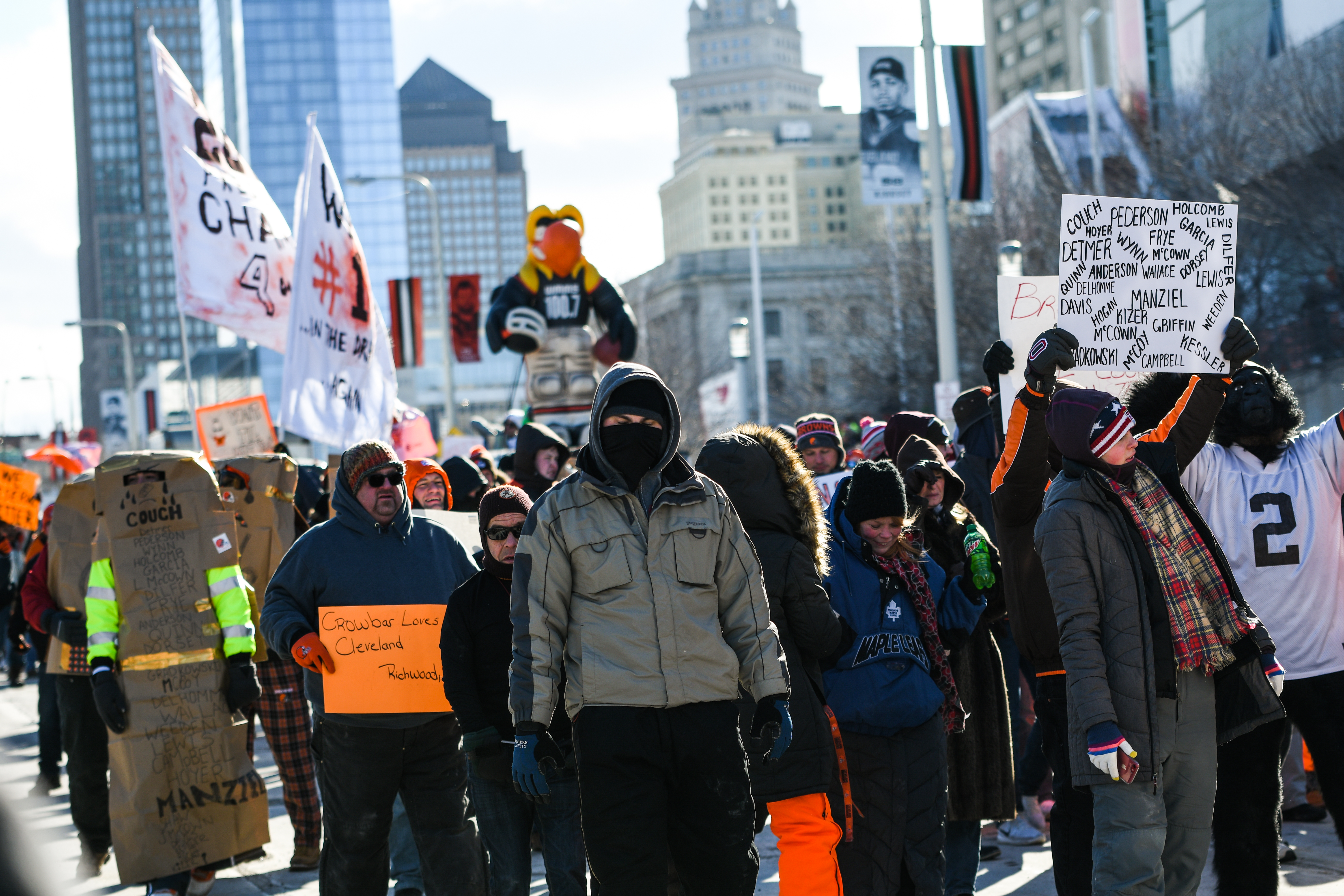 Perfect Season Parade 2.0